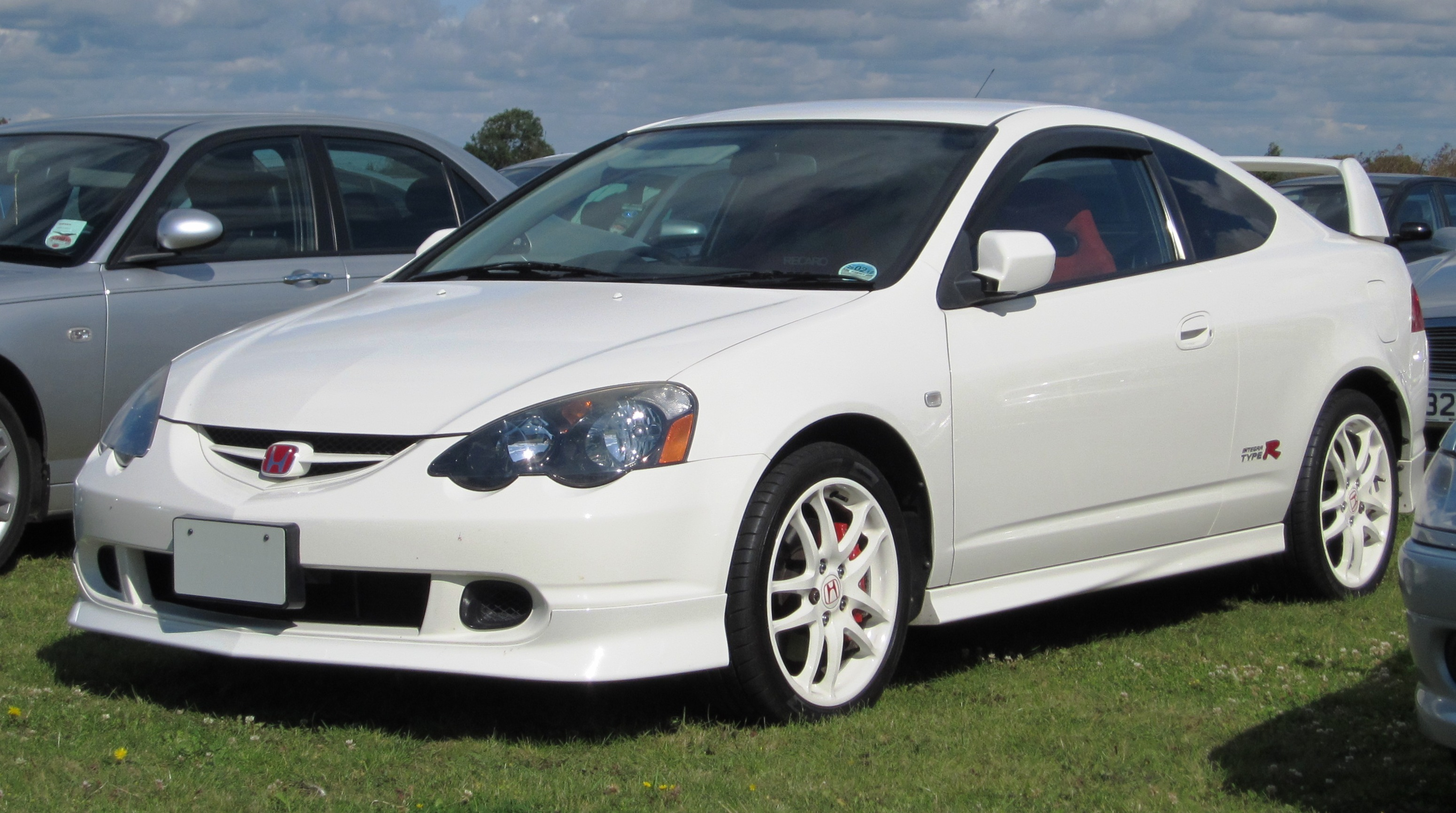 Honda Integra R at Snetterton